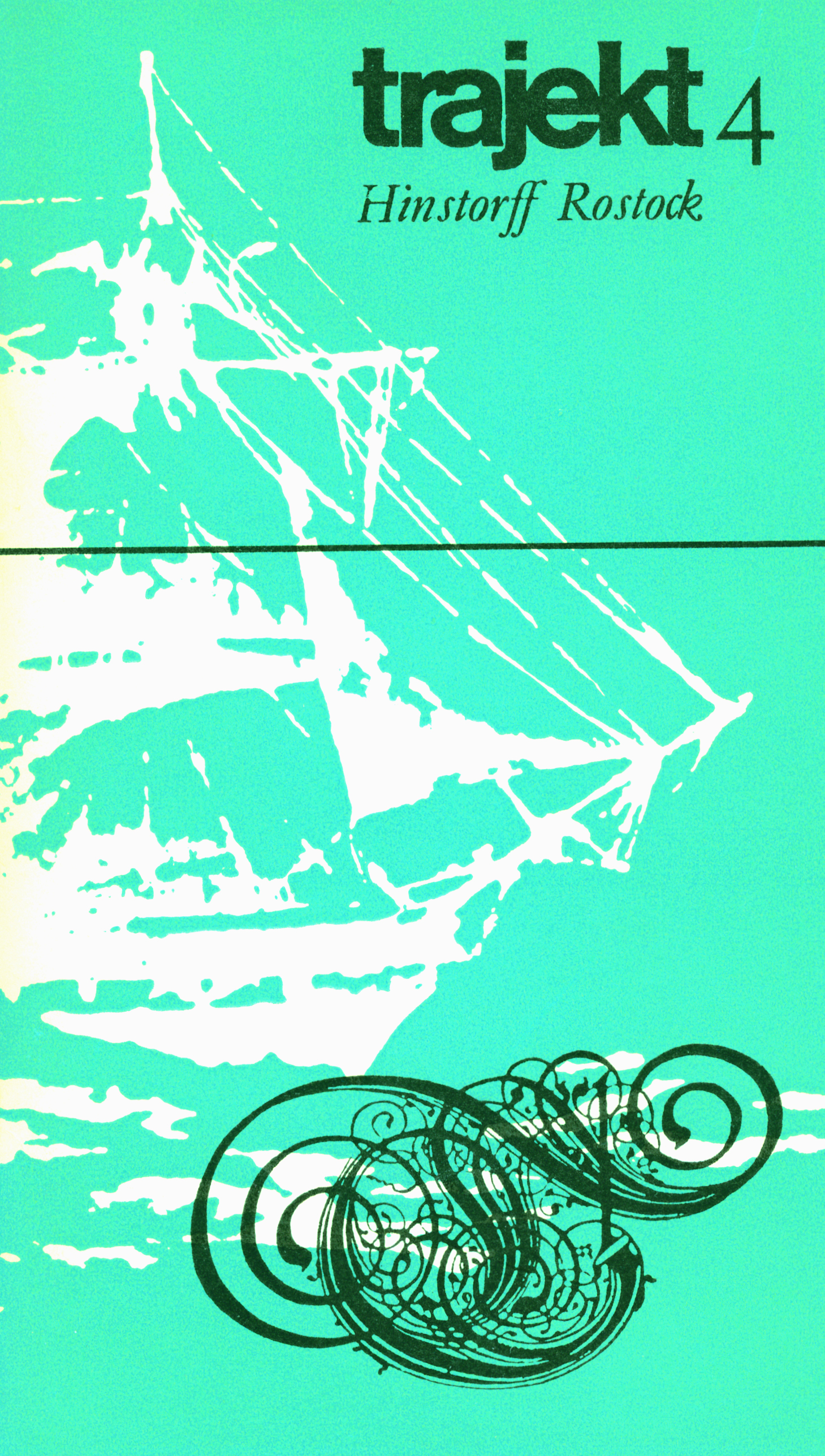 This is the title page of No. 4 (1971) of the German magazine "Trajekt", edited by the publishing house "Hinstorff-Verlag" in Rostock.